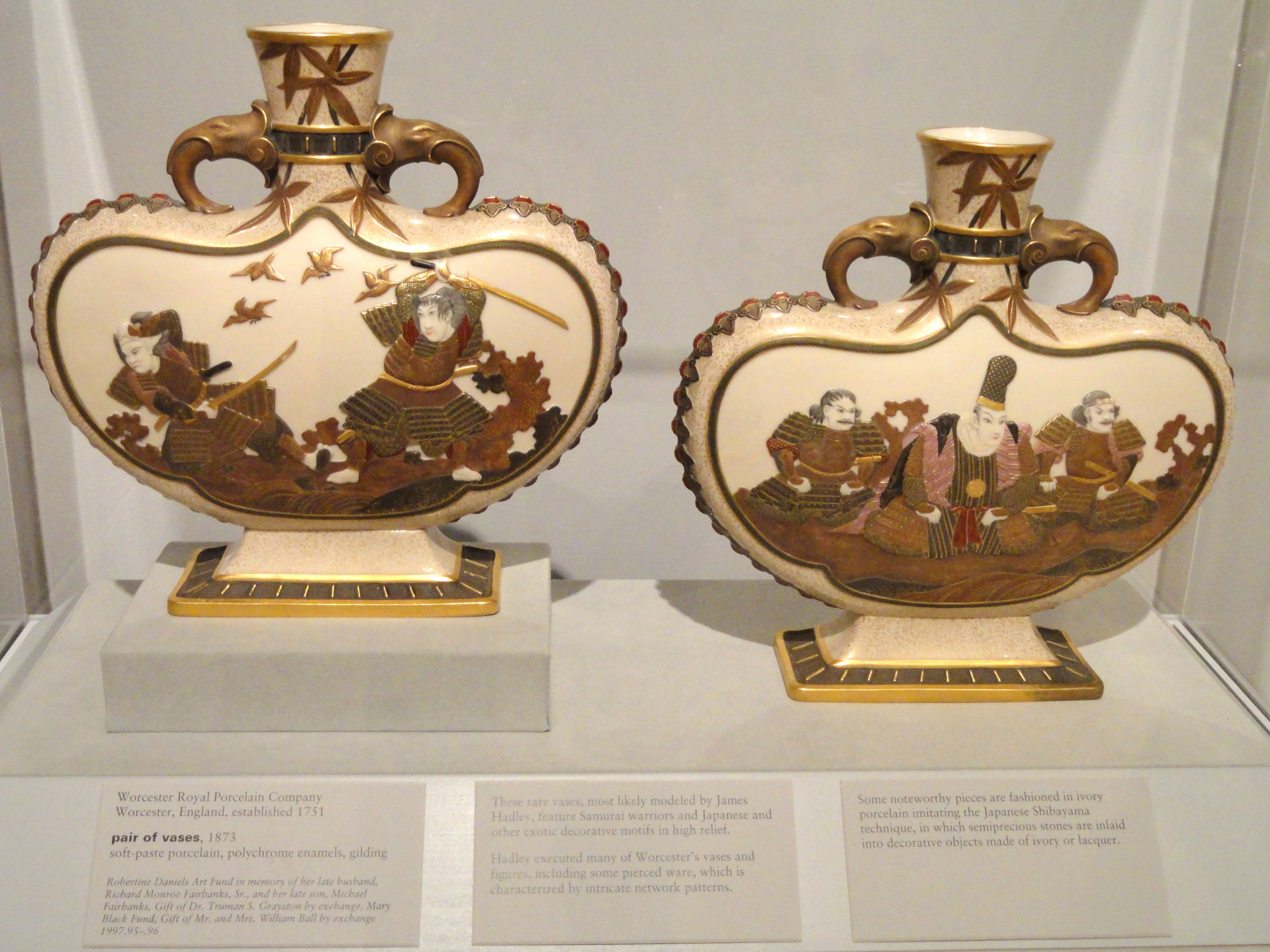 Vases in a Japanese style by Royal Worcester Porcelain Company, 1873. Exhibit in the Indianapolis Museum of Art, Indianapolis, Indiana, USA.